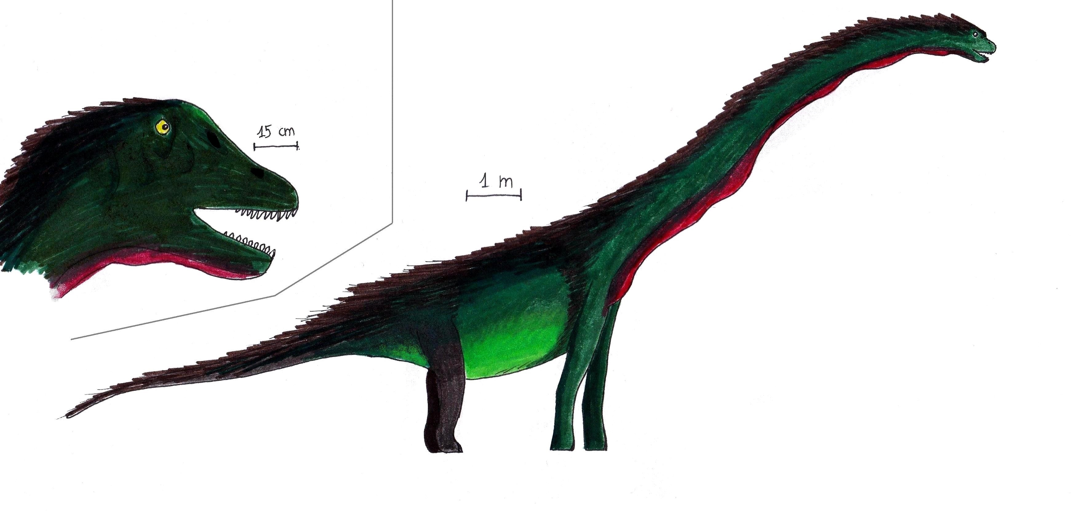 Restoration of Paluxysaurus with head detail